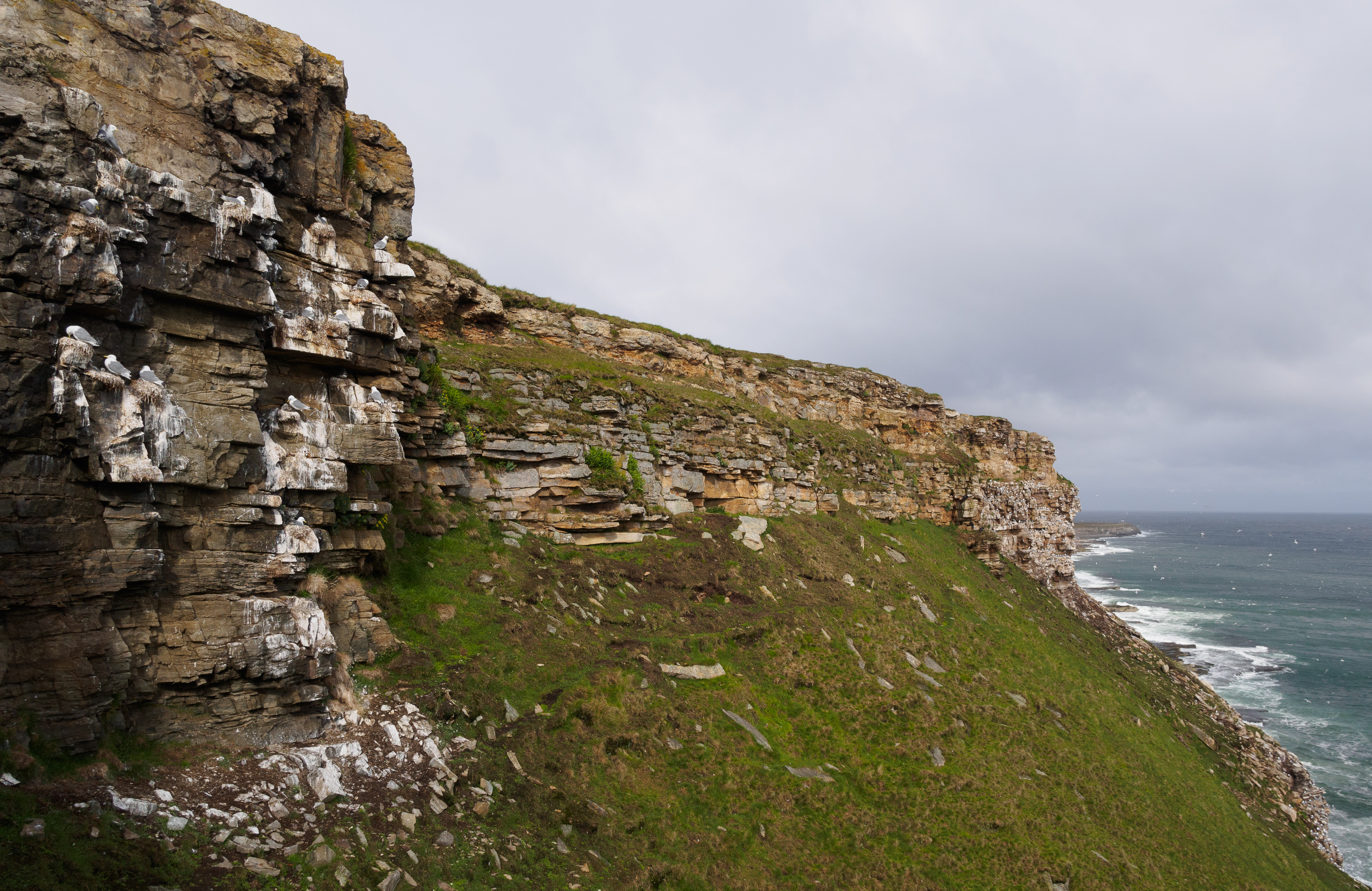 View of the bird colonies with black-legged kittiwakes on the south side of the island of Ekkerøy.